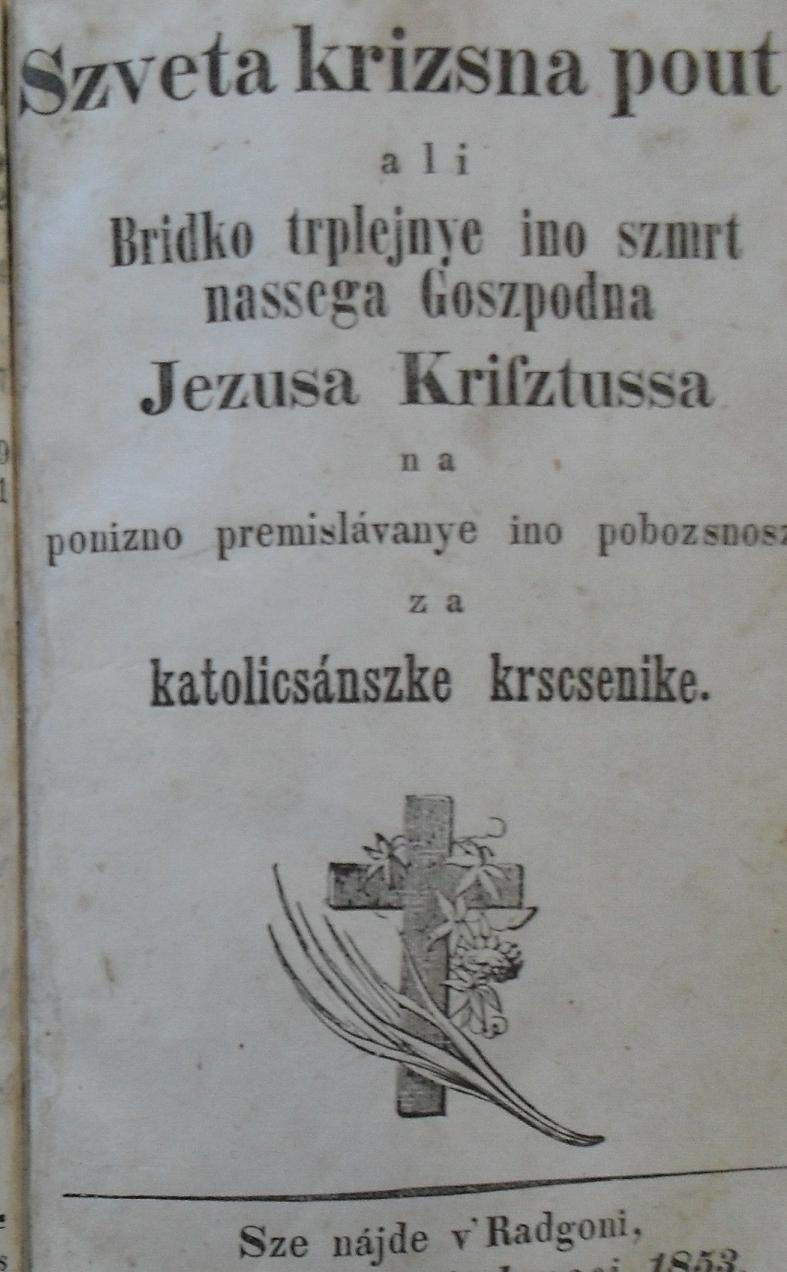 Jakab Szabár: Szveta krizsna pout (The stations of the Holy Cross) in prekmurian language. In the Kniga molitvena (1853)